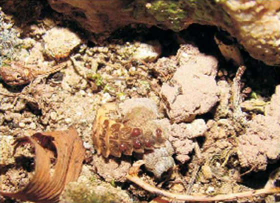 Larva of Alecton discoidalis feeding on Torrella immersa (probably family Pomatiidae) in nature.